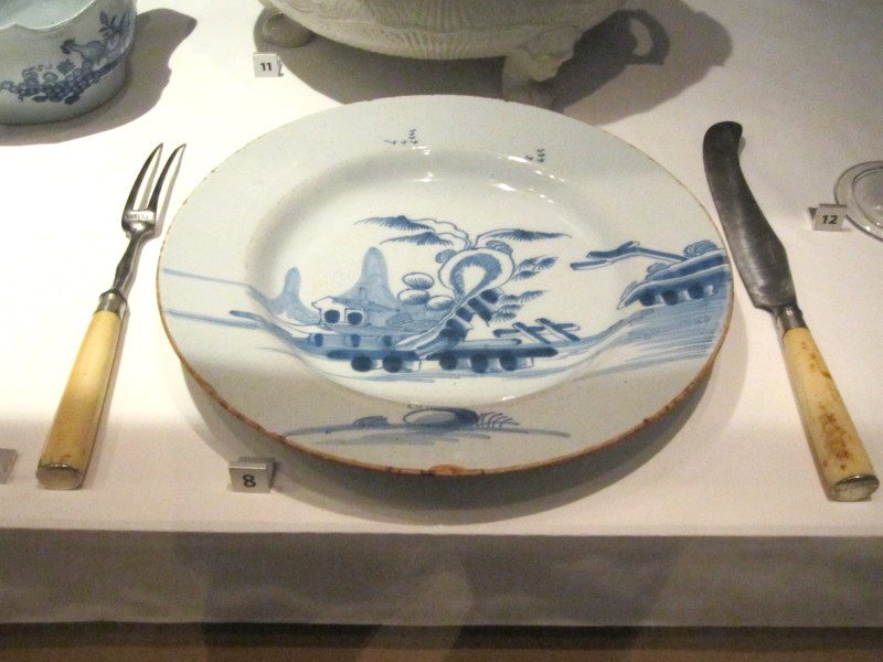 Dinner set from about 1750, Walker Art Gallery, Liverpool, England. Featuring a tin-glazed earthenware plate and steel and bone knife and fork.